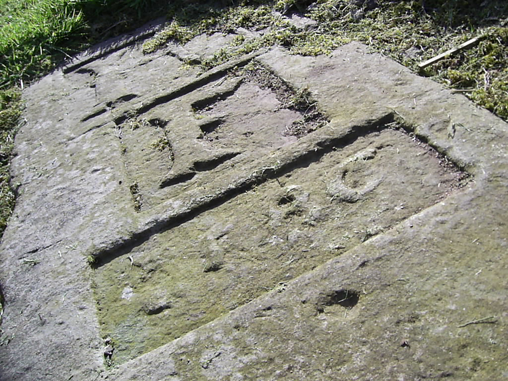 From my own collection